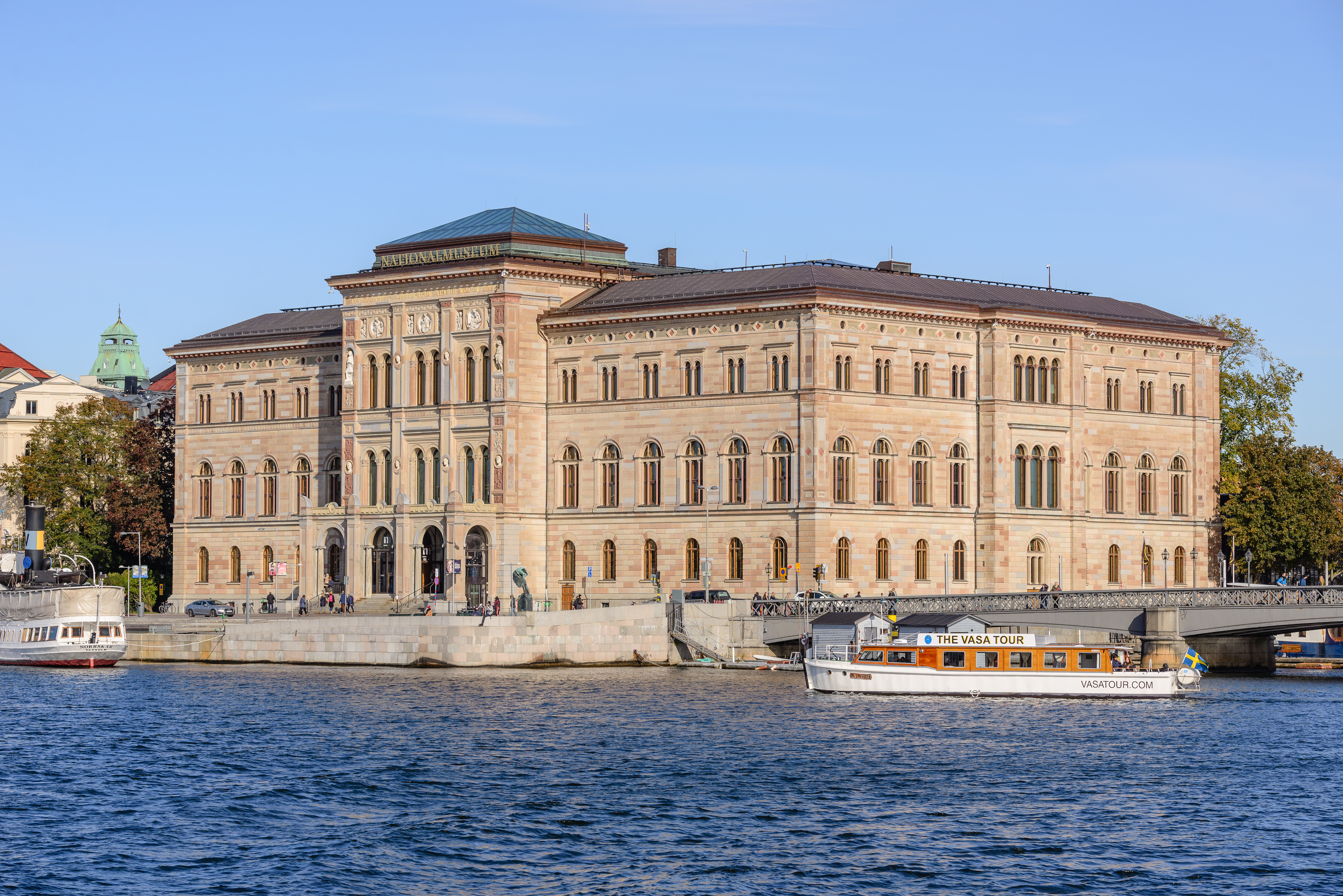 Nationalmuseum, Stockholm